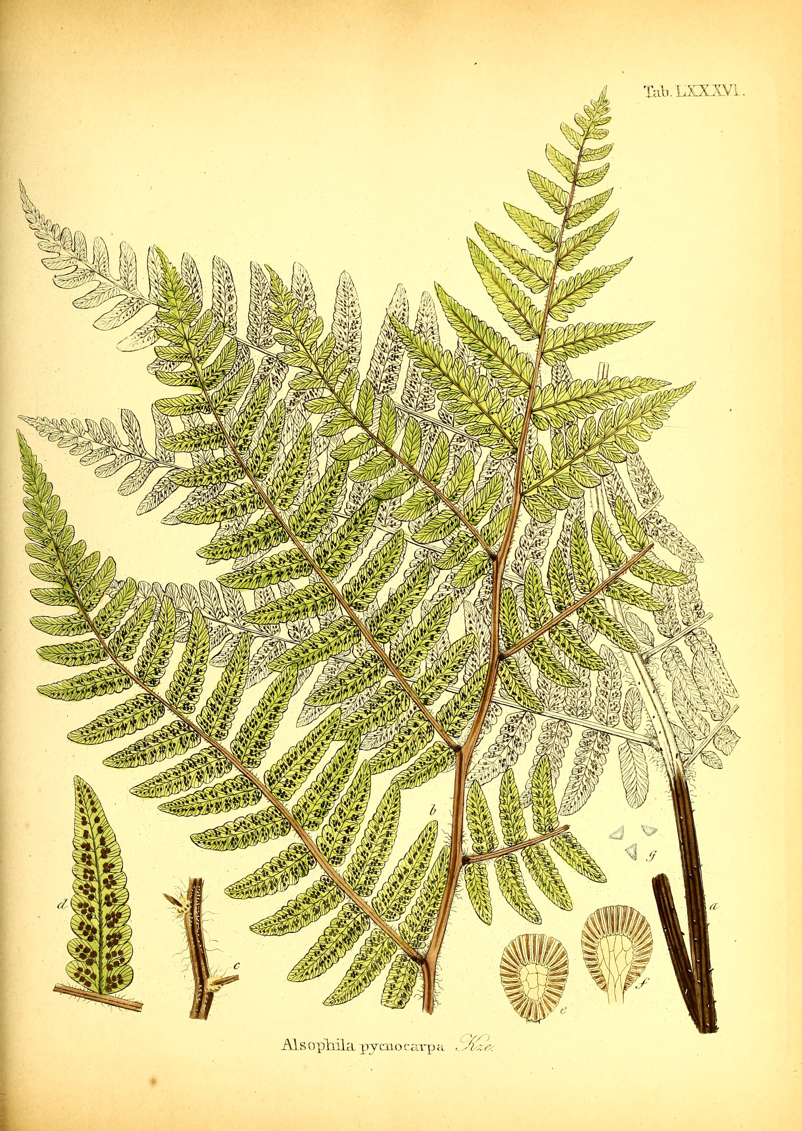 Title: Die Farrnkräuter in kolorirten Abbildungen naturgetreu Erläutert und Beschrieben Year: 1840 (1840s) Authors: Kunze, Gustav, 1793-1851 Subjects: Ferns Publisher: Leipzig, E. Fleischer Text Appearing Before Image: ' Text Appearing After Image: '